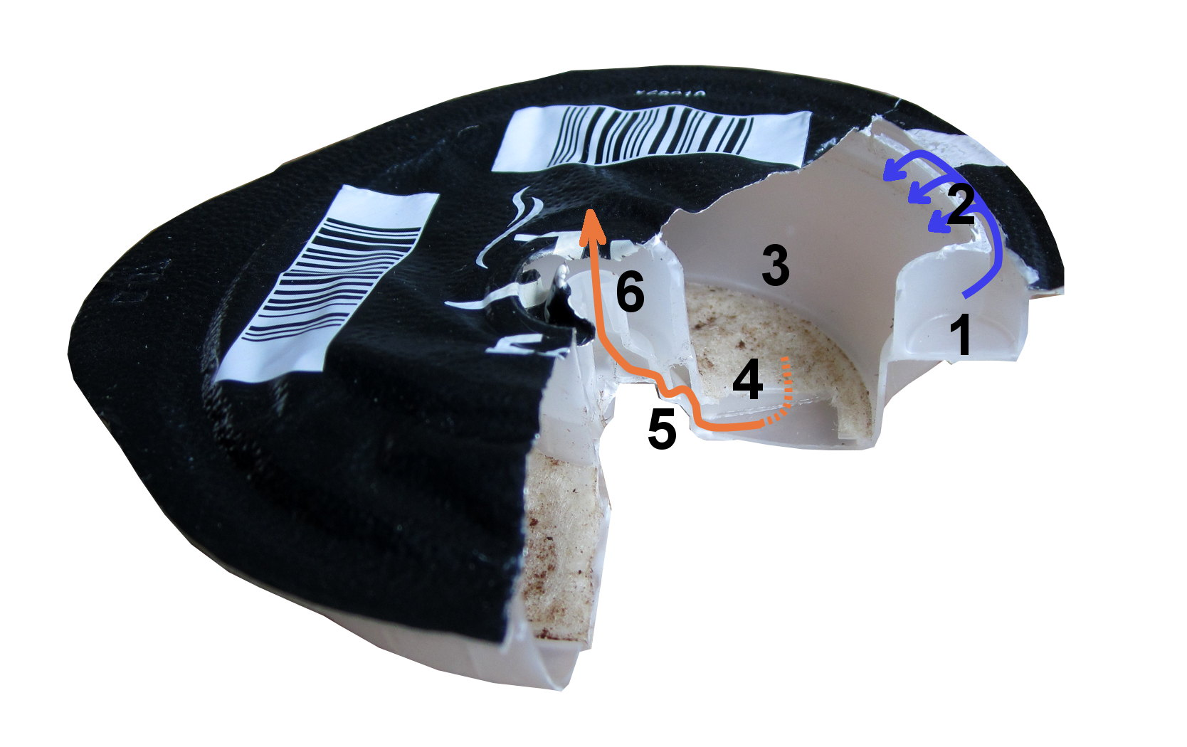 The inside of an emptied used Tassimo coffee capsule. Note: The capsule is placed into the machine with the black foil down. 1) Water inlet - is penetrated in the machine while closing the capsule cabinet 2) Water distribution channel with slots to the beverage medium chamber 3) Chamber for beverage medium (grinded coffee/ milk ) 4) Filter floor 5) Labyrinth 6) Outlet - is penetrated in the machine while closing the capsule cabinet